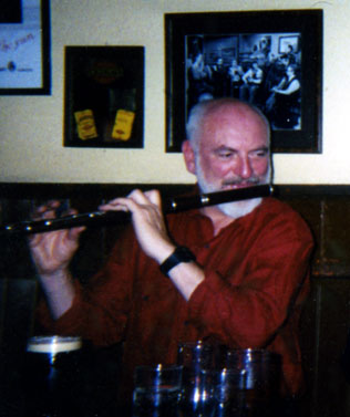 Matt Molloy, flautist for Irish folk band The Chieftans